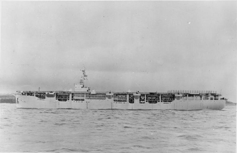 The Merchant Aircraft Carrier (MAC) ship MV Empire MacColl, sometime between 1943 and 1945.